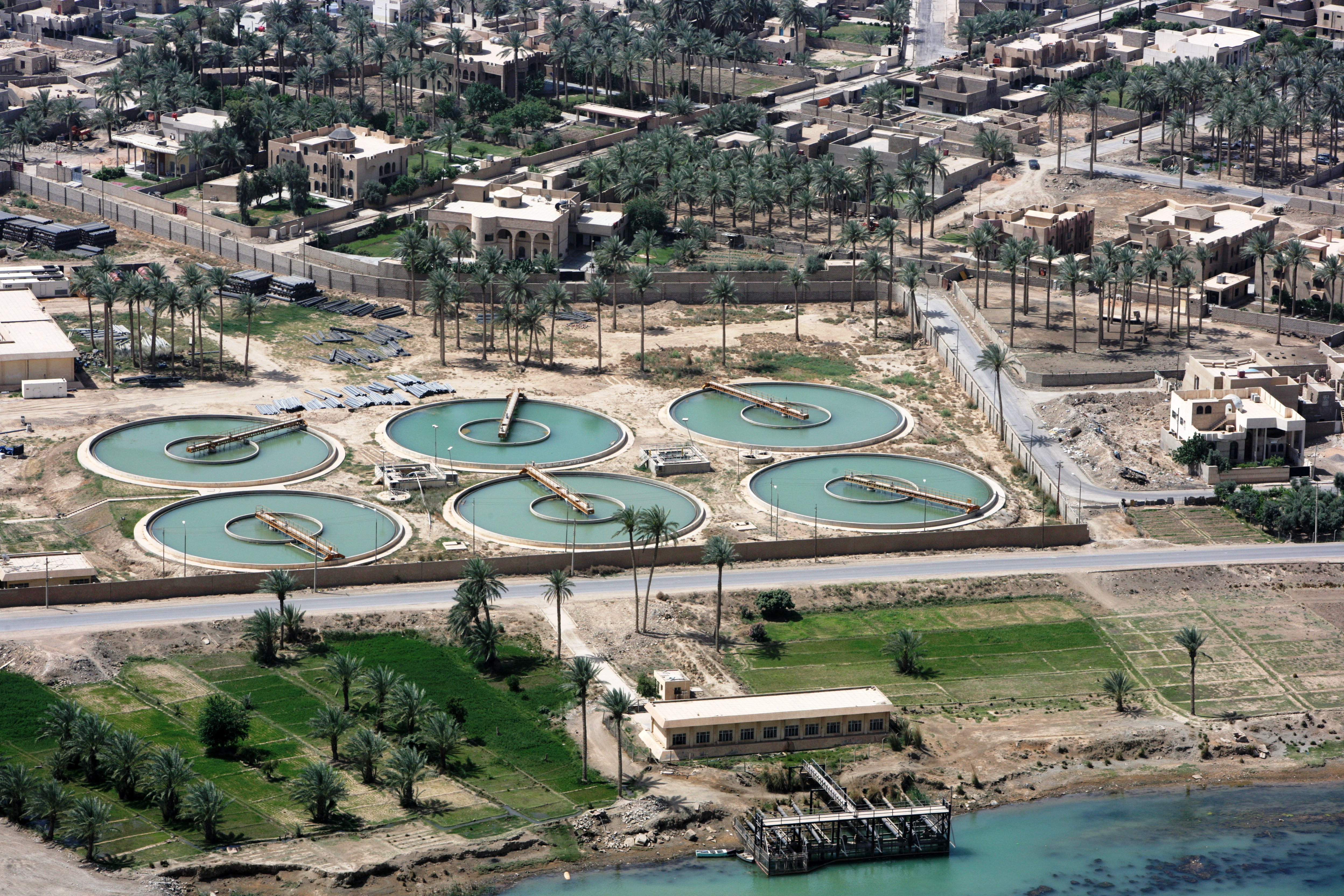 Aerial view of a water treatment plant in Ramadi, Iraq.